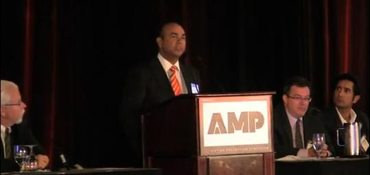 Dr. Safeek addressing the AMp Symposium 2011 in Chicago